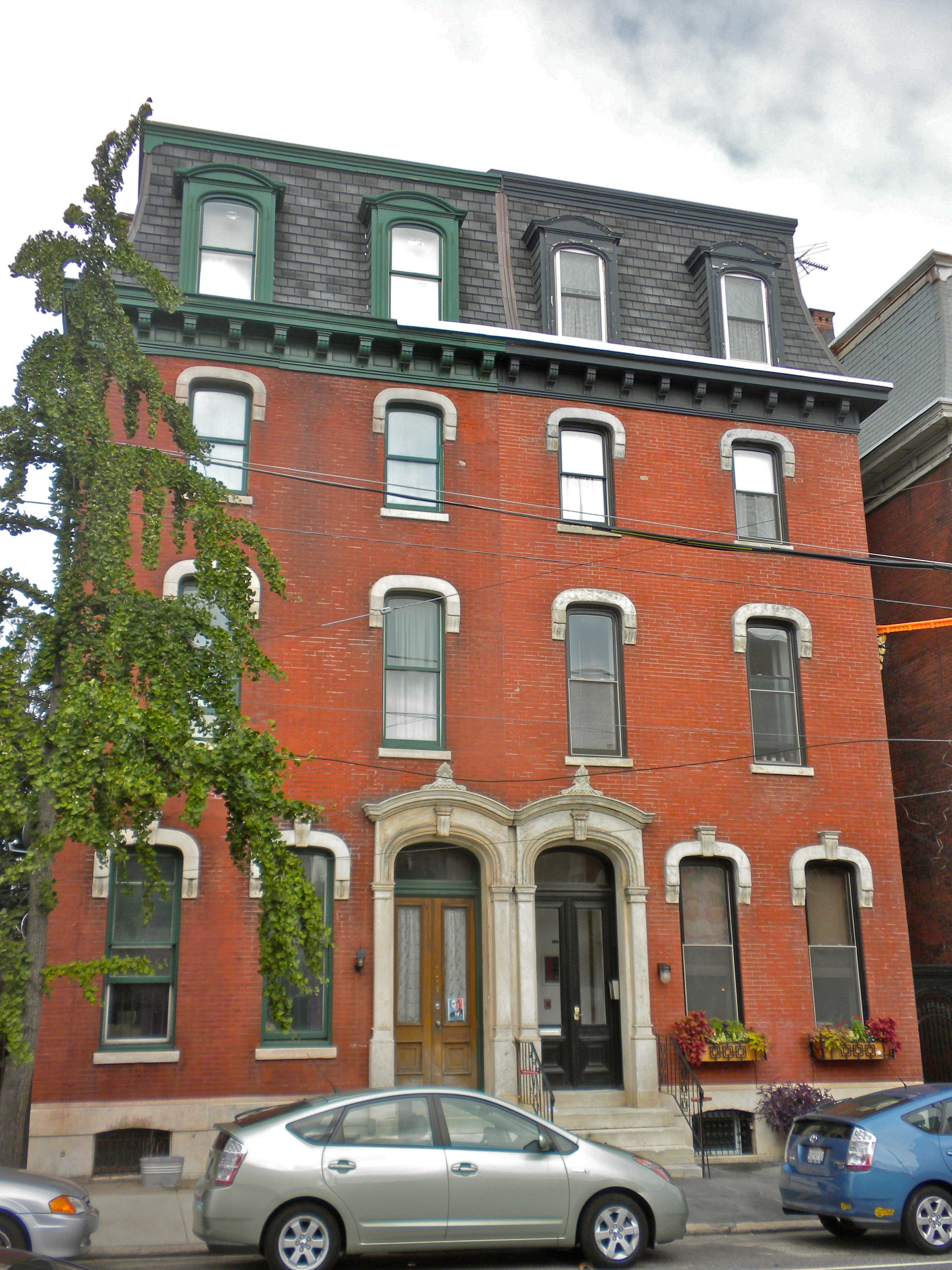 House in Northern Liberties Historic District on NRHP since October 31, 1985. The HD is roughly bounded by Brown, Boone and Galloway, Green and Wallace, and 5th and 6th Sts., Philadelphia, neighborhood of Northern Liberties. This particular house is 702 N. 5th Street, across from St. Andrews Orthodox Church